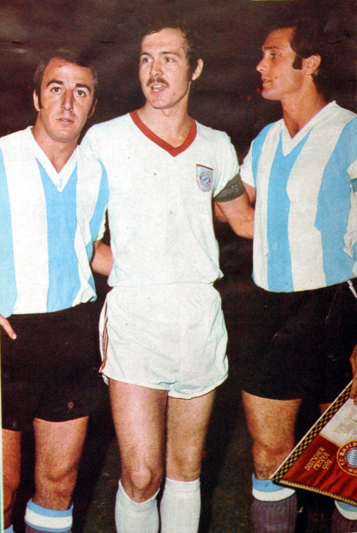 Madurga, Beckenbauer, Perfumo. Argentina (4) vs Bayern Munich (3) at La Bombonera.